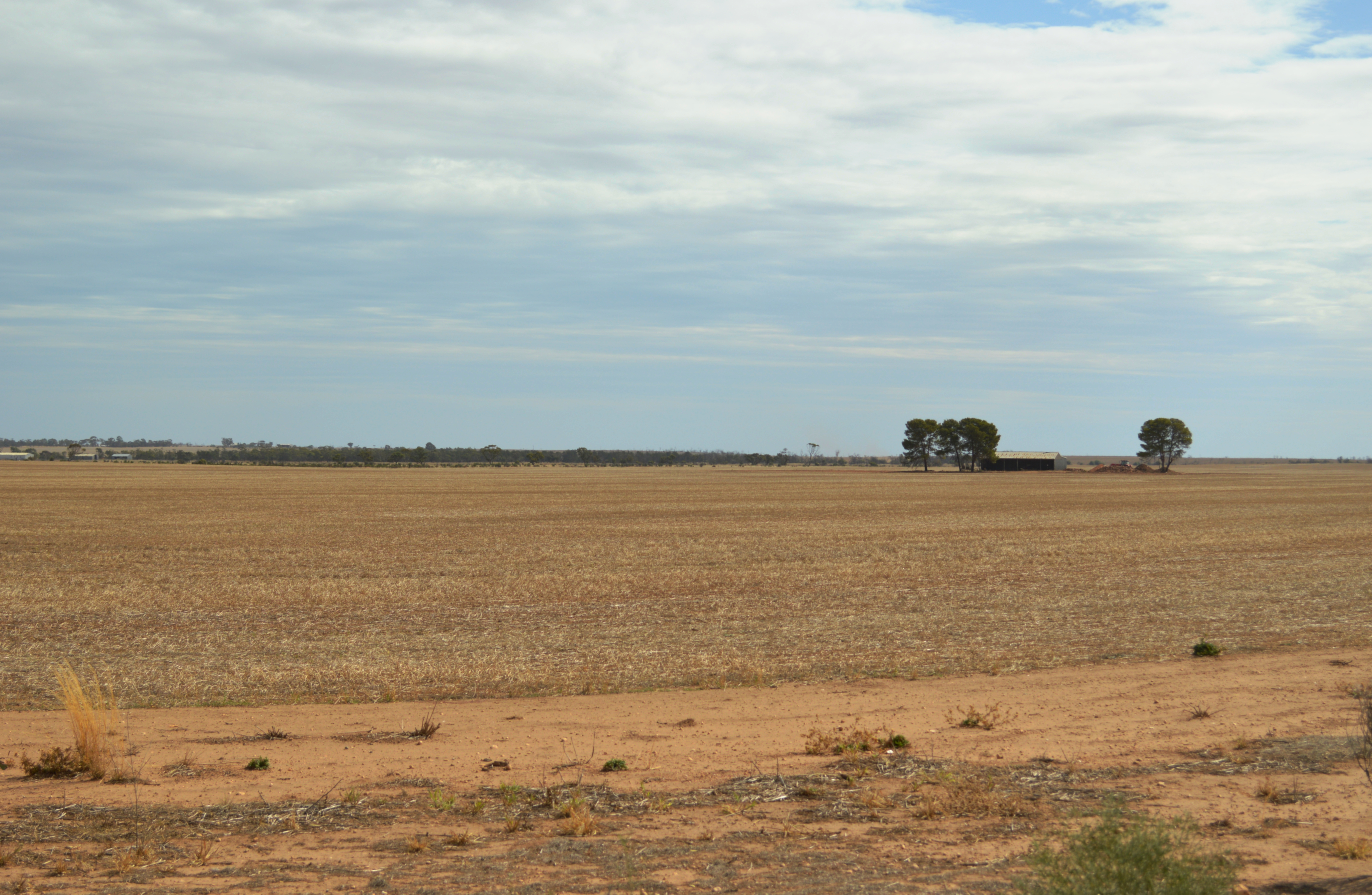 Farm at Stockyard Creek, SA